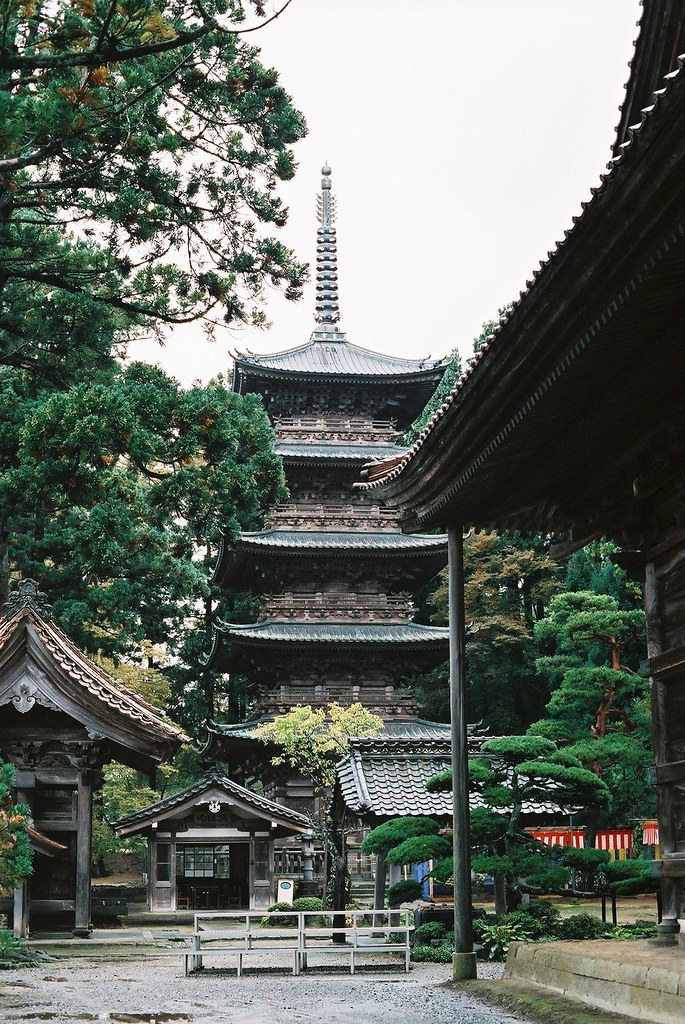 Five-storied Pagoda of Zenpoji in Tsuruoka city, Yamagata pref Japan